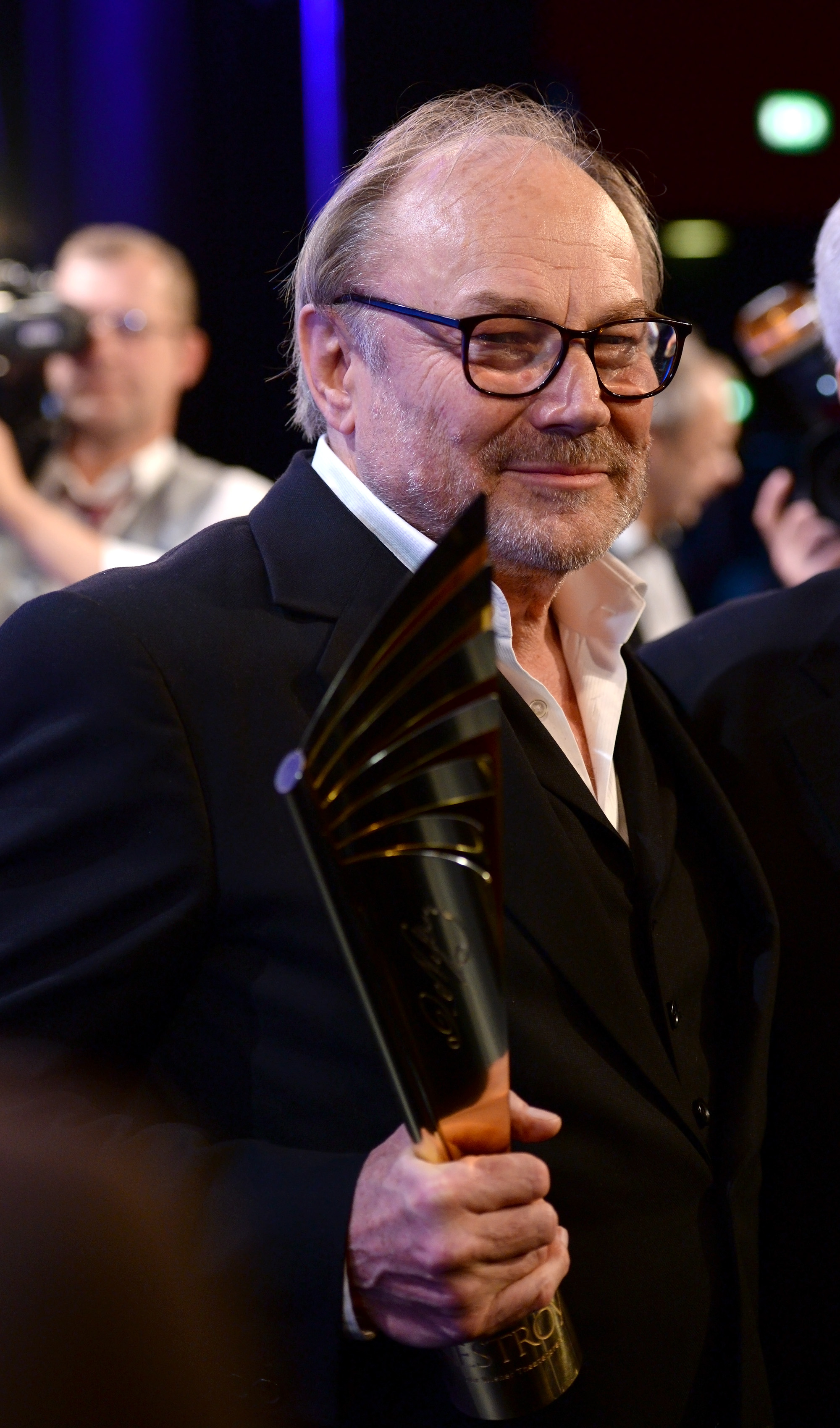 Klaus Maria Brandauer - Nestroy Theatre Awards 2014 at Wiener Stadthalle (Vienna, Austria).